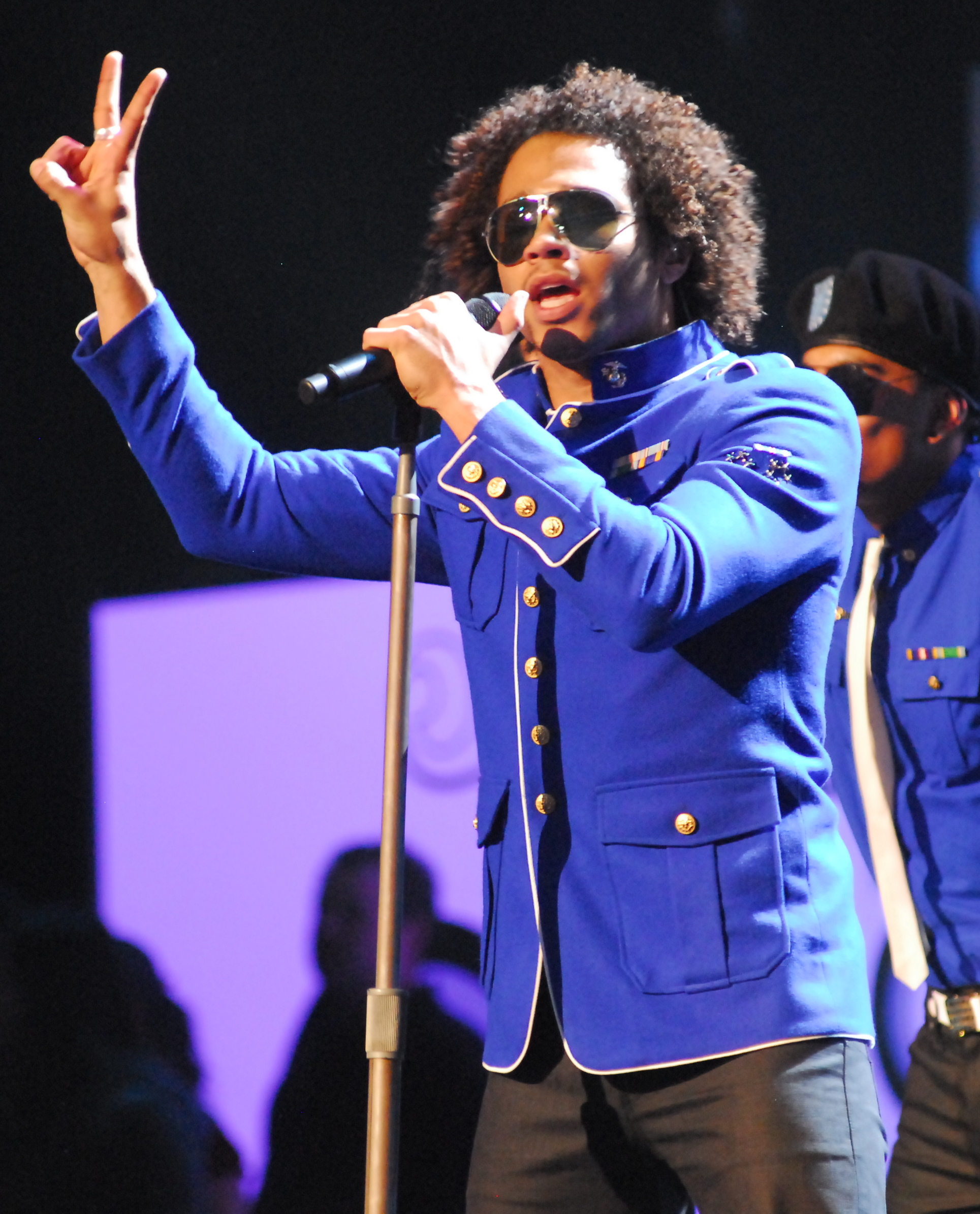 Corbin Bleu at Kids' Inaugural